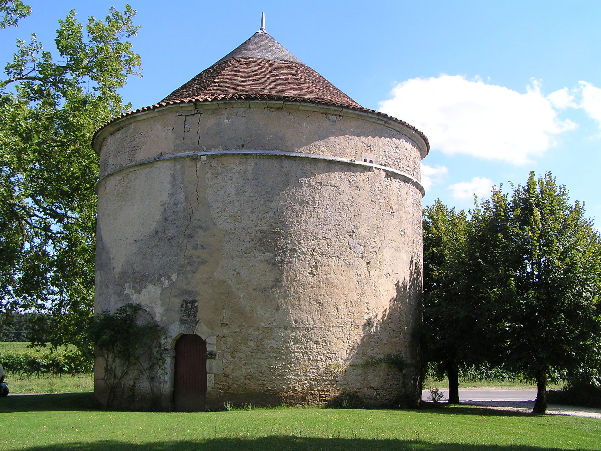 le pigeonnier du château de garde-épée